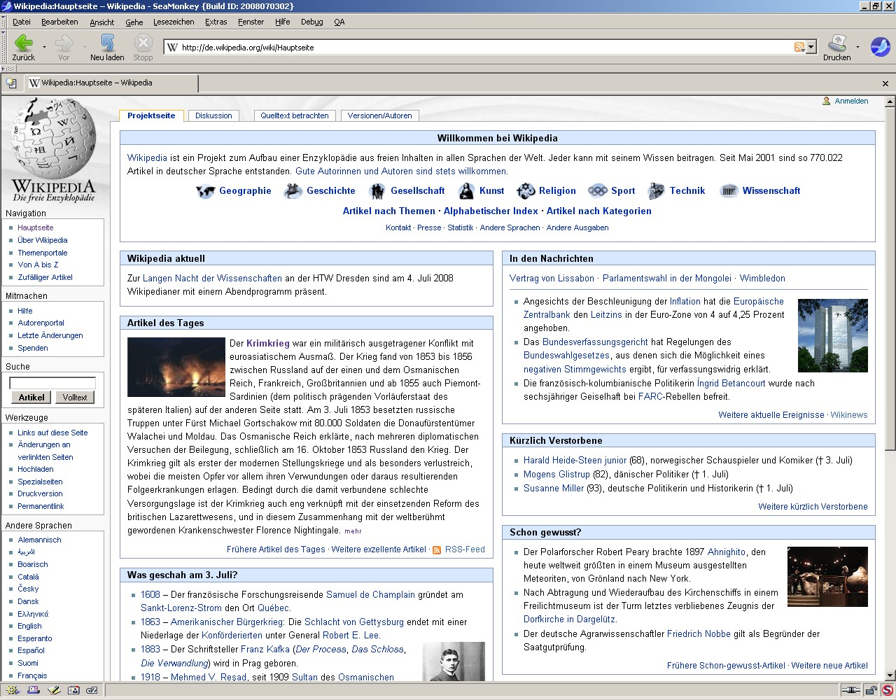 SeaMonkey 2.0 Alpha, with new standard-theme on Windows 2000